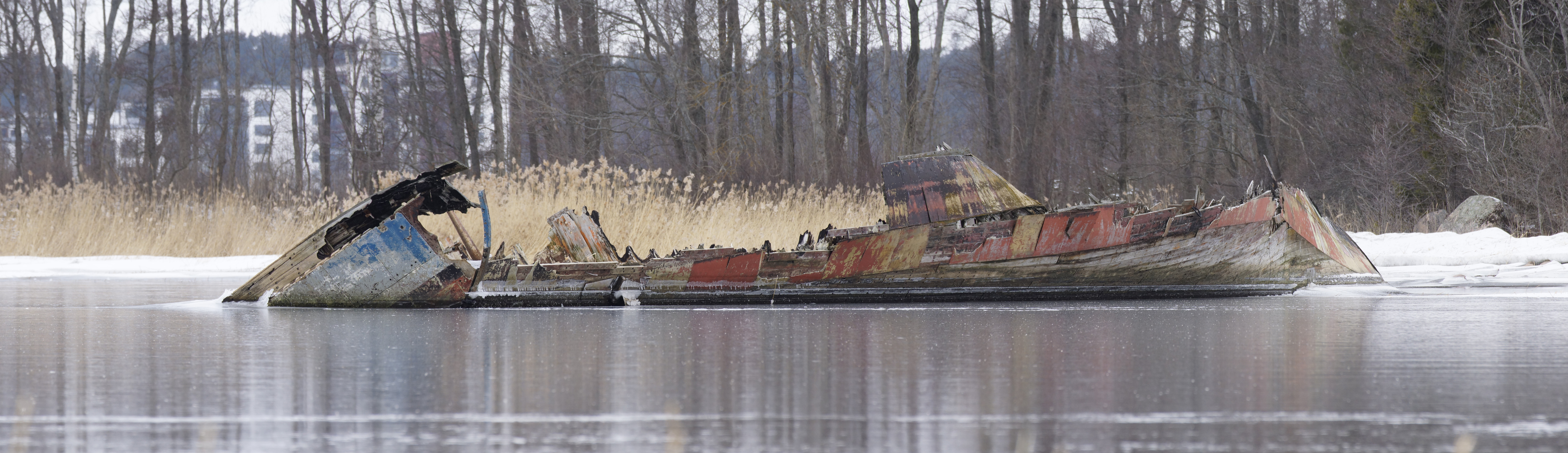 HMS Aspö shipwreck, February 2017.